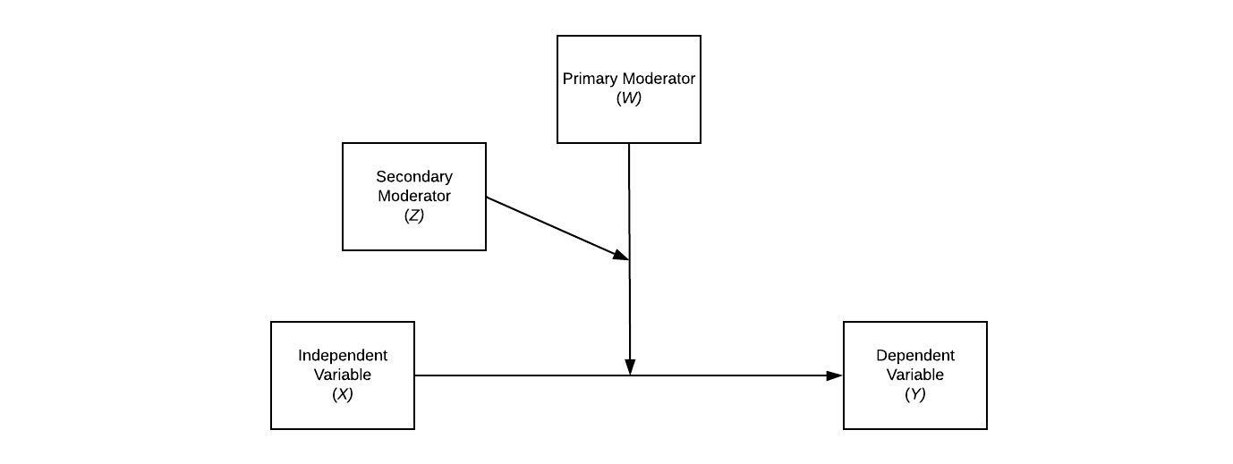 A moderated moderation model (three-way interaction) has X, W, and Z interacting. W's influence on X's effect on Y is conditional on Z.